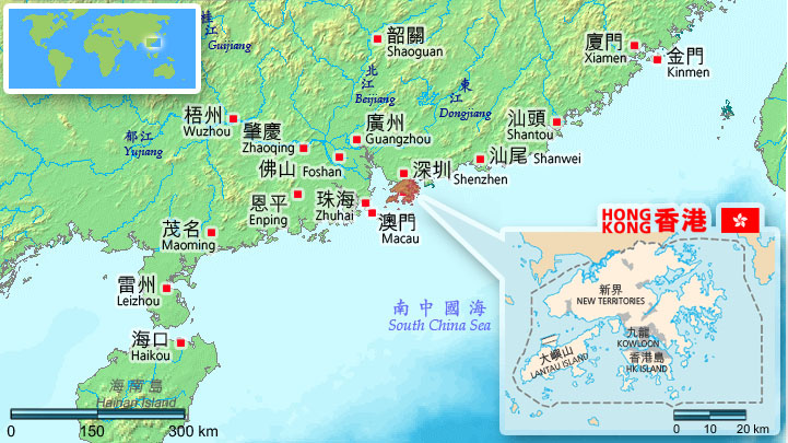 華南地圖，其中特別標註香港 Map of Southern China, with Hong Kong inset